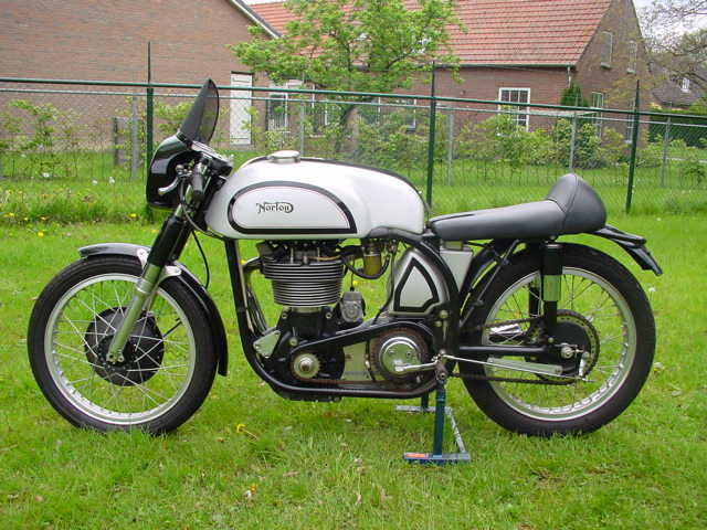 Norton 1958 Manx.